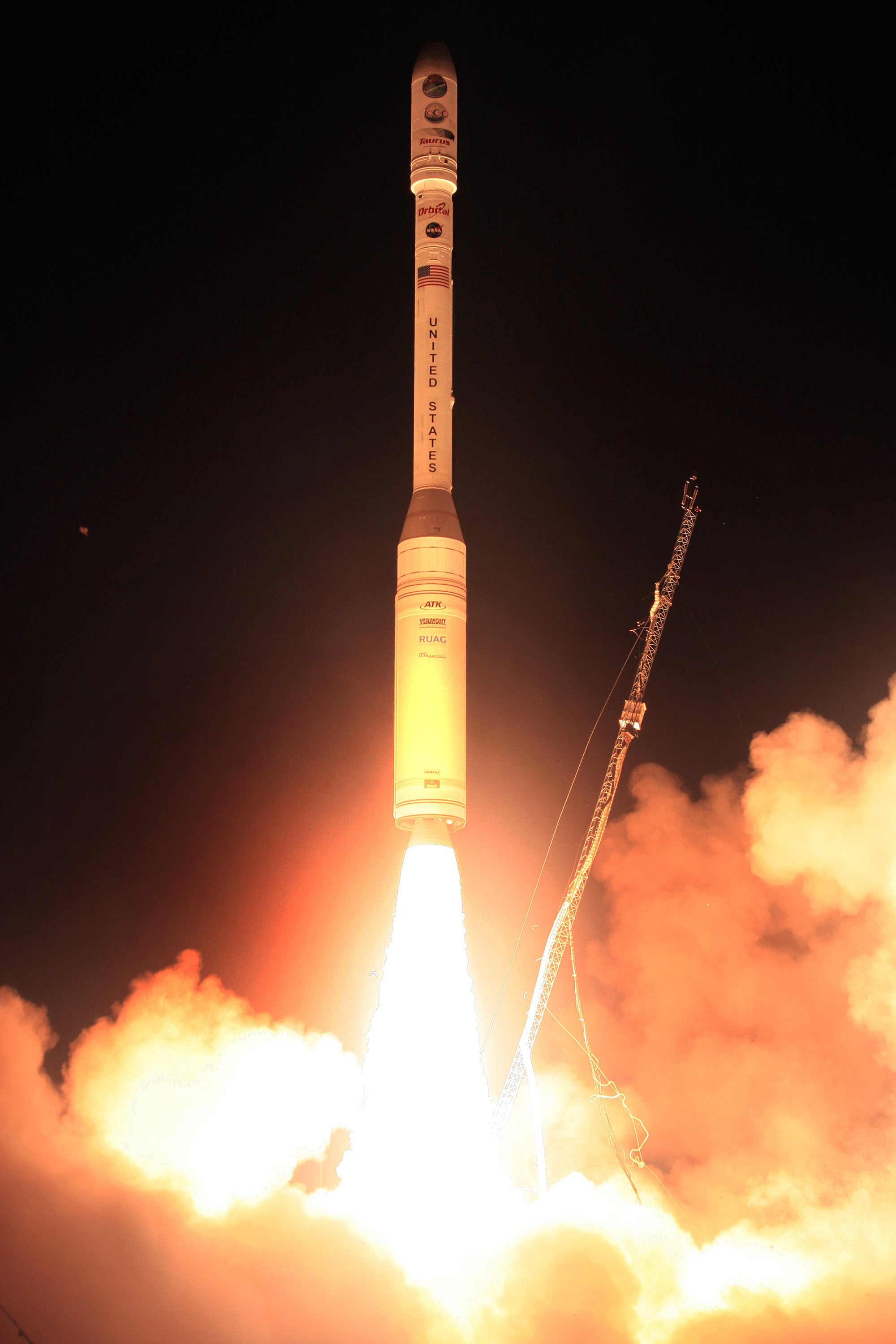 NASA’s Orbiting Carbon Observatory and its Taurus booster lift off Feb. 24 from Vandenberg Air Force Base in California at 4:55 a.m. EST. A contingency was declared a few minutes later and the satellite failed to reach orbit after liftoff. Preliminary indications are that the fairing on the Taurus XL launch vehicle failed to separate. The fairing is a clamshell structure that encapsulates the satellite as it travels through the atmosphere. A Mishap Investigation Board is being set up to determine the cause of the launch failure.